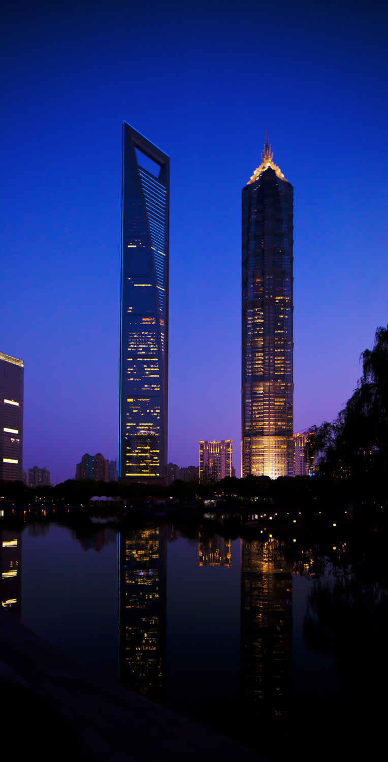 Tower pudong shanghai jinmao tower and swfc